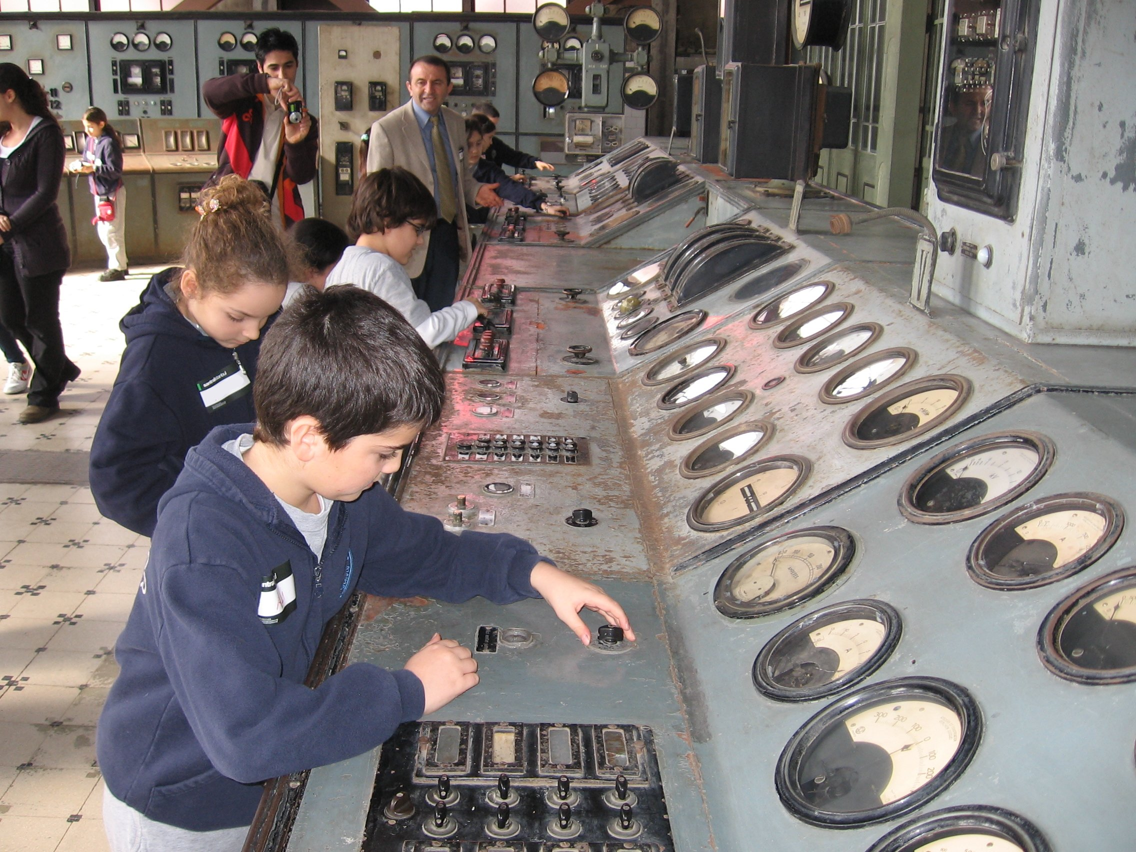 Santralİstanbul energy museum - control room